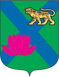 Lesozavodsk (Primorsky kray), coat of arms